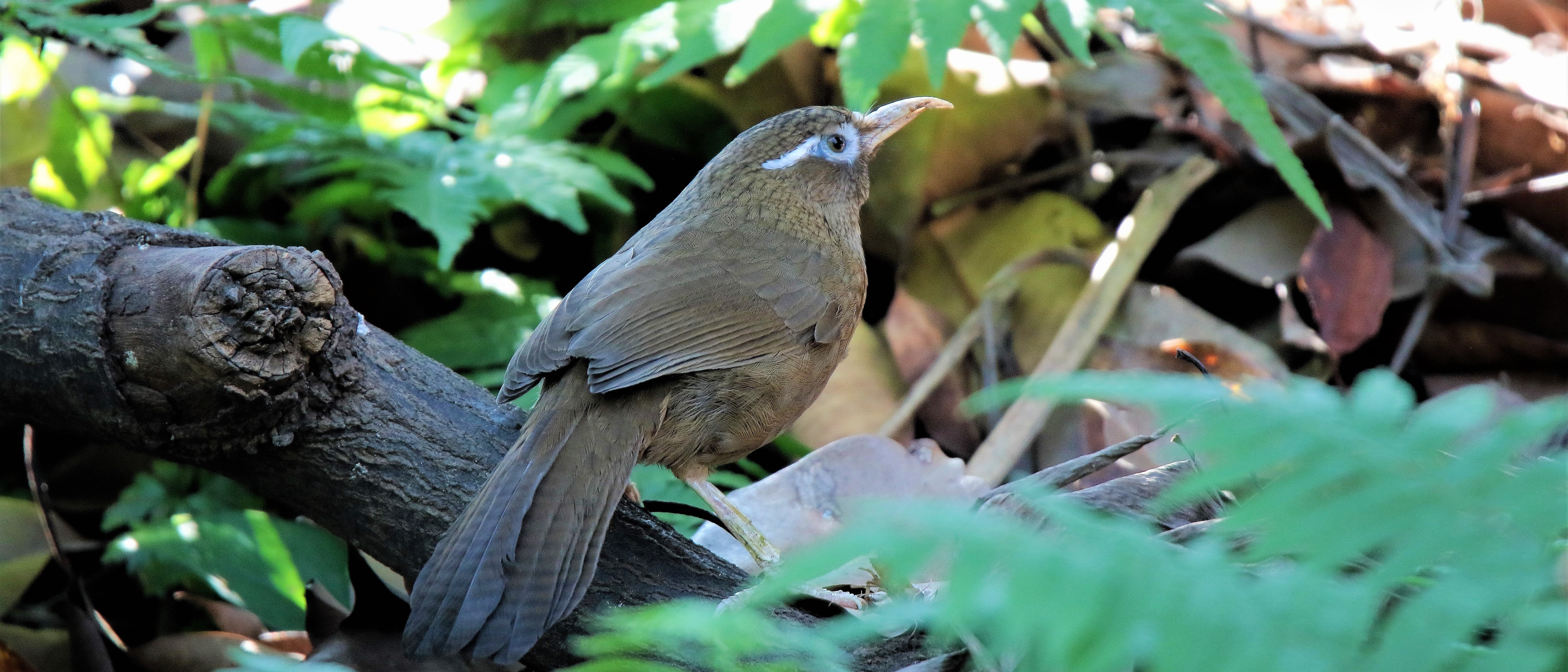 Garrulax canorus